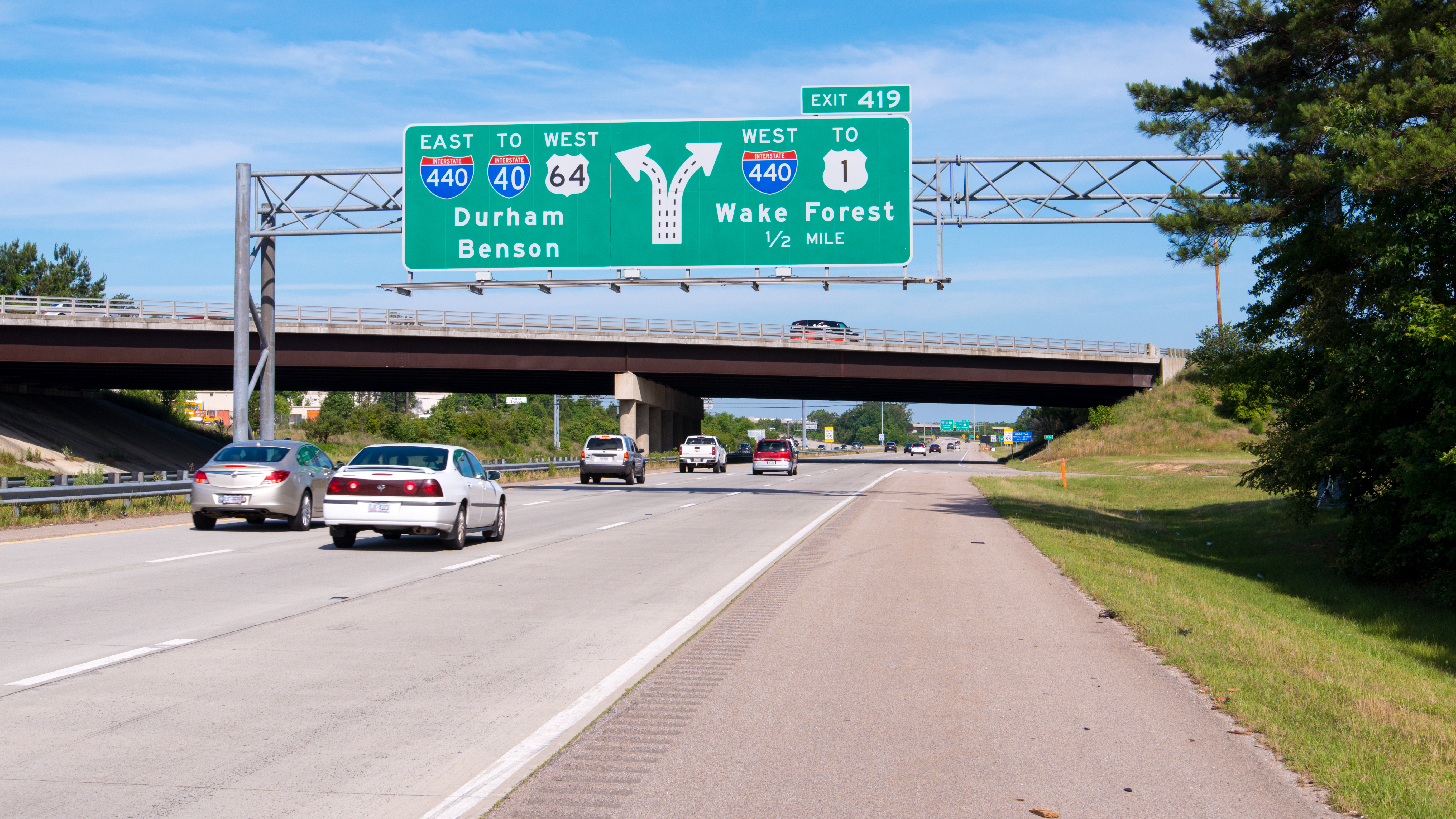 Diagrammatic guide sign of exit 419 splitting between east and westbound I-440, either to Durham and Benson or Wake Forest.